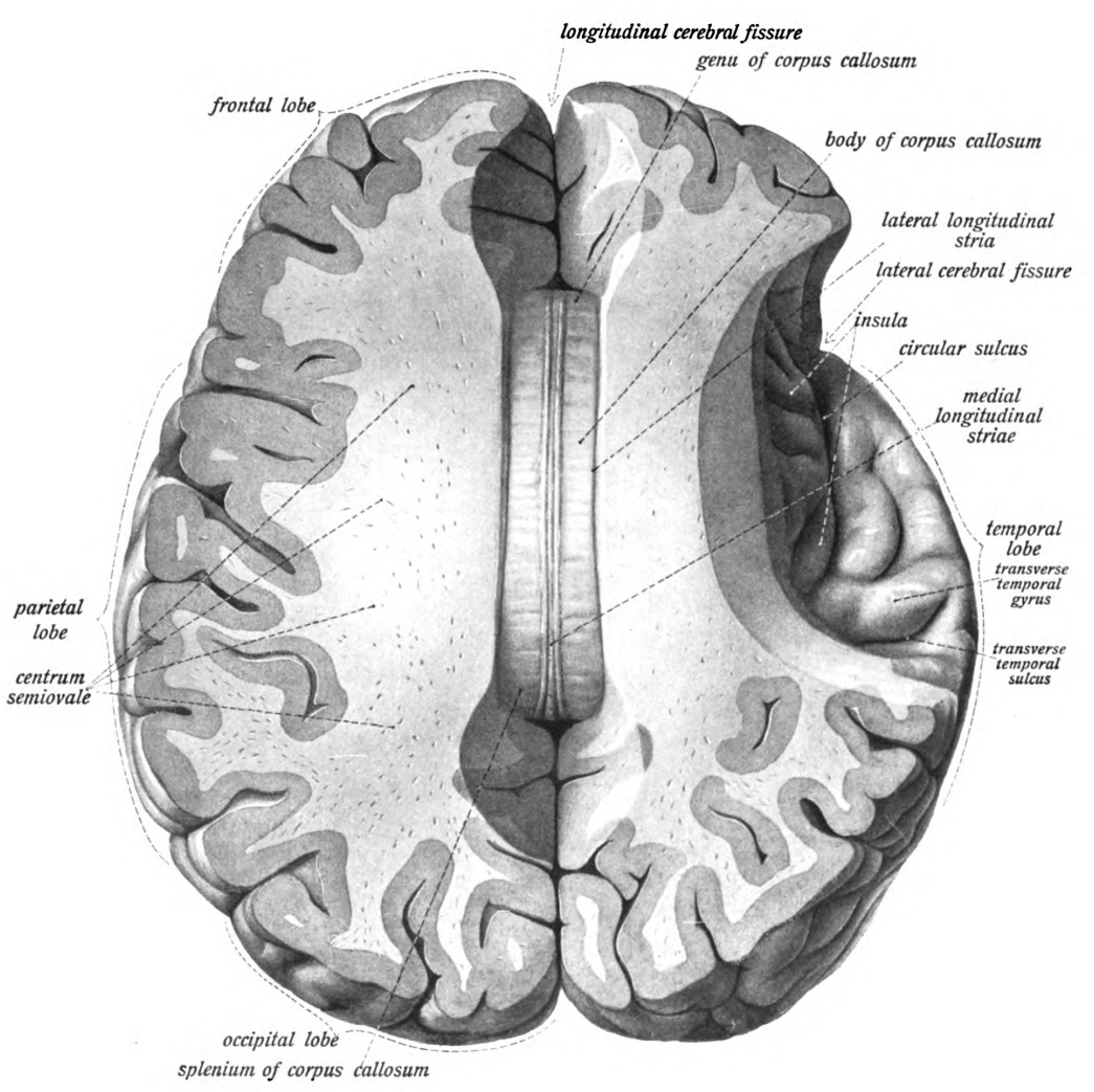 An anatomical illustration from the 1908 edition of Sobotta's Anatomy Atlas